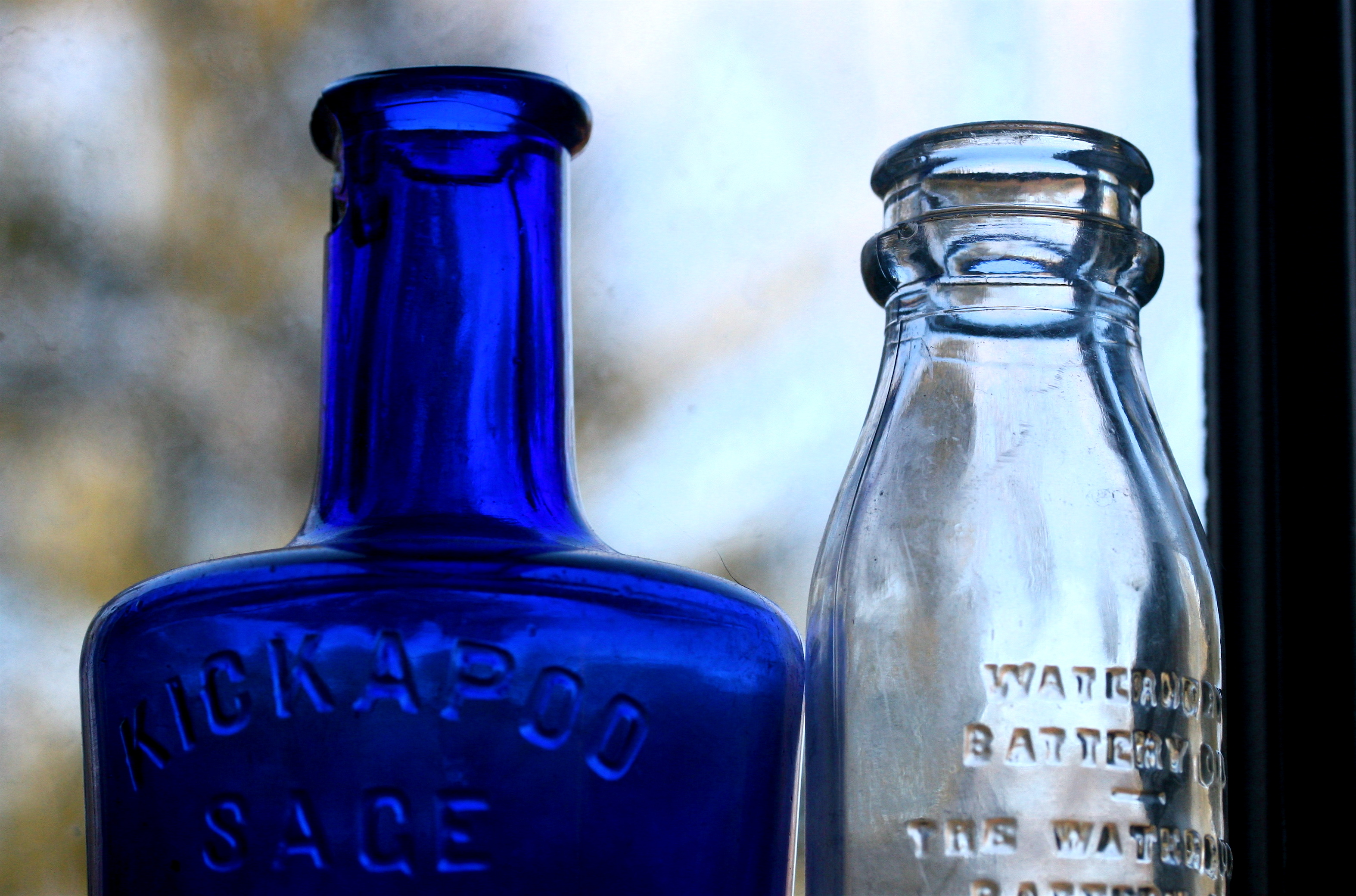 When I was a kid, I loved Al Capp's cartoon "Li'l Abner." It often contained references to something called Kickapoo Joy Juice. When I grew up, I began collecting Kickapoo patent medicines. At the time, many medicines were named after Indian tribes. They were said to be herbal cures handed down from ancient times. Many of these patent medicines were loaded with alcohol. For a while, people taking them actually did feel better. Hence the term "joy juice."